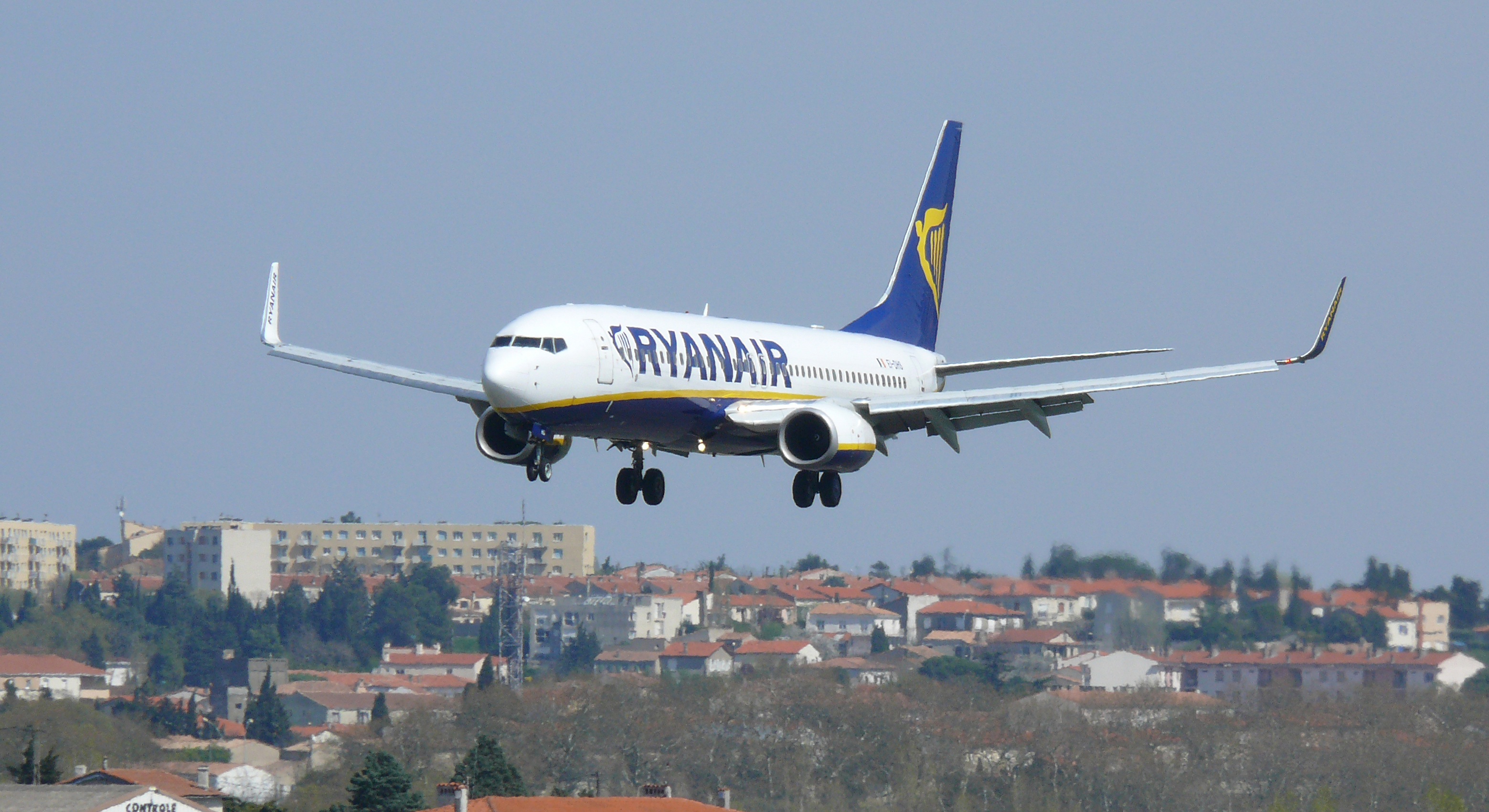 Ryanair Boeing 737-800 (Next Generation) EI-DHS landing at Carcassonne Salvaza Airport.